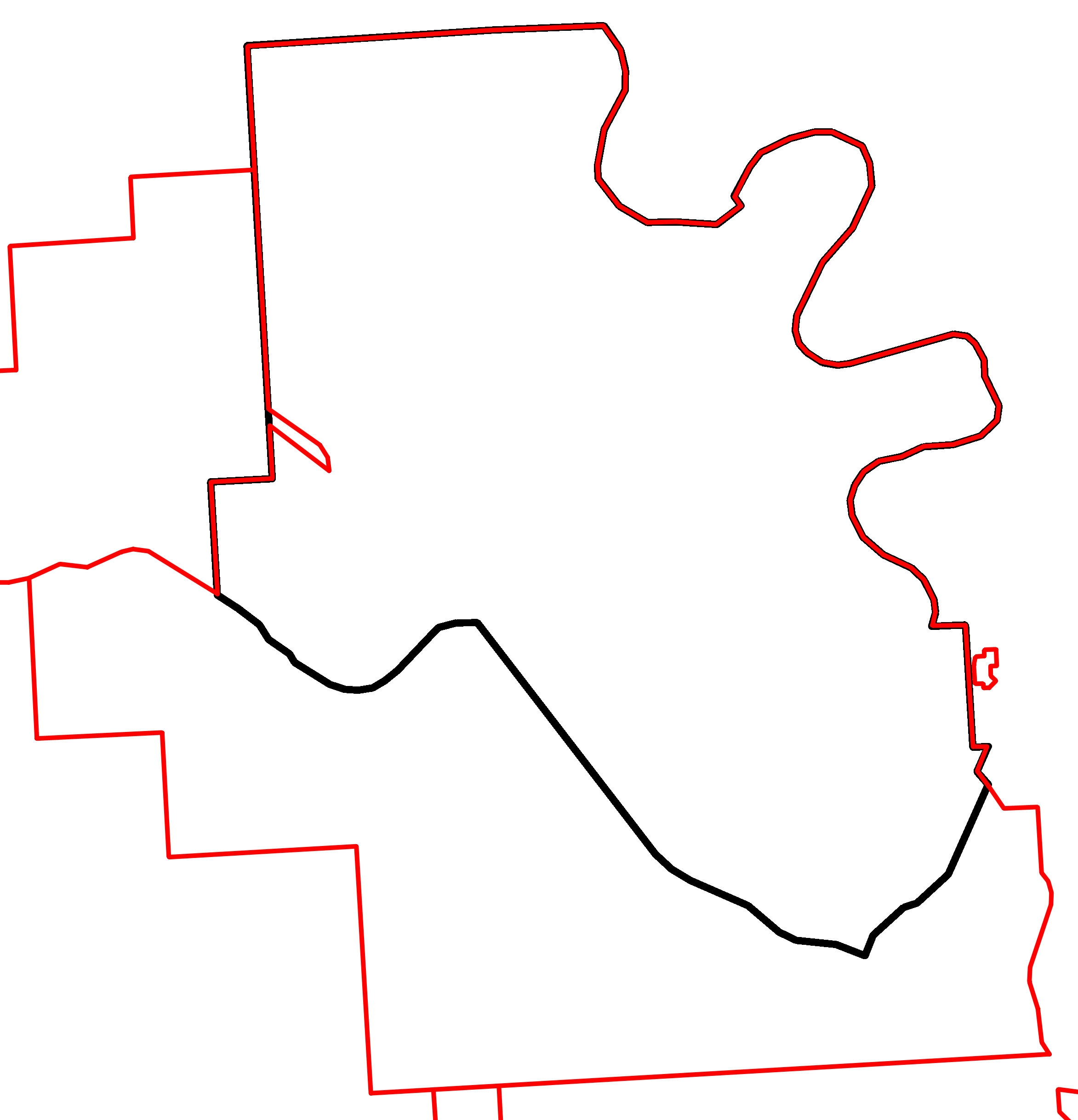 A map of Alberta provincial electoral districts, effective 2010, in black, overlaid with the boundaries of the Cypress County, Hamlet of Desert Blume, Hamlet of Dunmore, City of Medicine Hat, Town of Redcliff, and Hamlet of Veinerville in red.